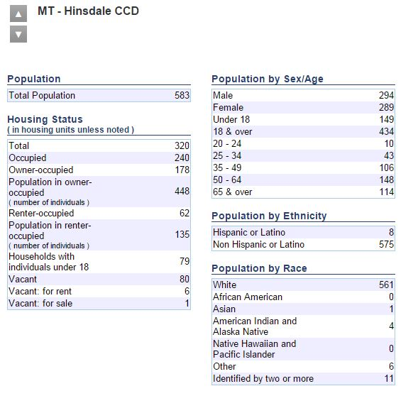 Demographics chart of Hinsdale, Montana. Taken from the 2010 U.S. Census.